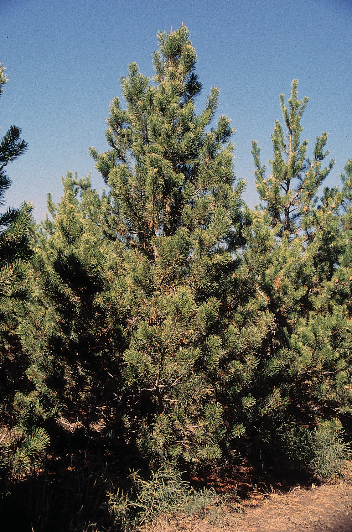 Tall Lodgepole Pine. Tree.